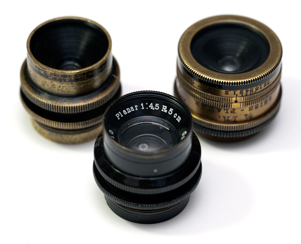 Carl Zeiss Jena Planar 5cm f/4.5 ROSS Planar 20mm f/4.5 Bausch&Lomb Planar 0.75in f/4.5